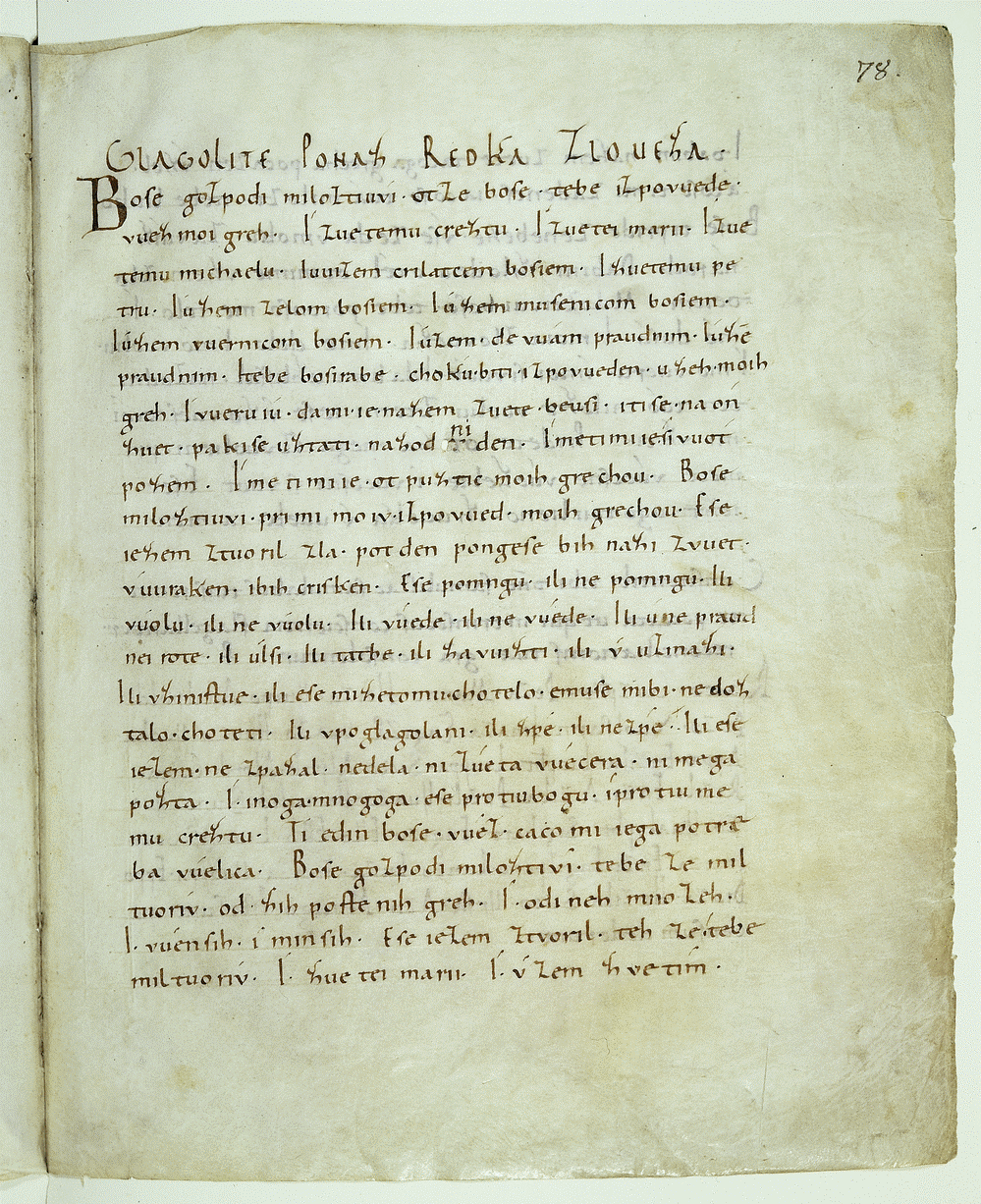 Facsimile of Freising Manuscripts, page 1.